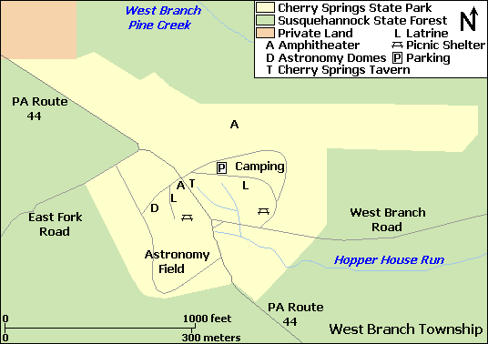 Map of Cherry Springs State Park, Potter County, Pennsylvania, USA